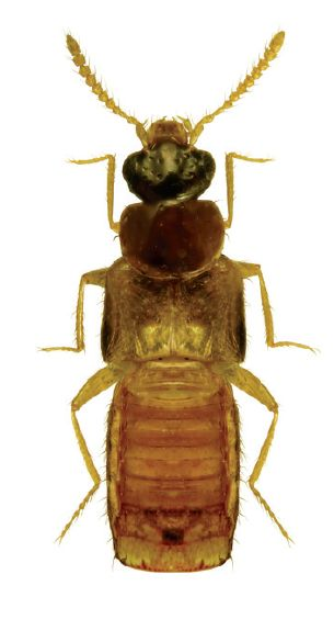 Dorsal view of Gyrophaena (G.) flavicornis (apical part of abdomen removed).